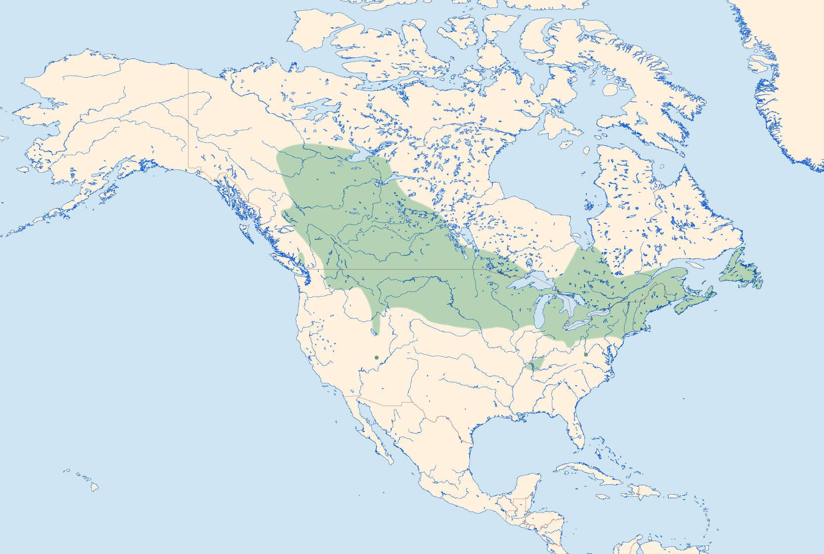 Distribution of Marsh Bluet (Enallagma ebrium). Data Sources (In case of discrepancies in the map source the youngest in each data source was used): Dennis Paulson: Dragonflies and Damselflies of the East, Princeton Field Guides, Princeton University Press, New Jersey 2011, ISBN 978-0-691-12283-0. Dennis Paulson: Dragonflies and Damselflies of the West, Princeton Field Guides, Princeton University Press, New Jersey 2000, ISBN 978-0-691-12281-6.